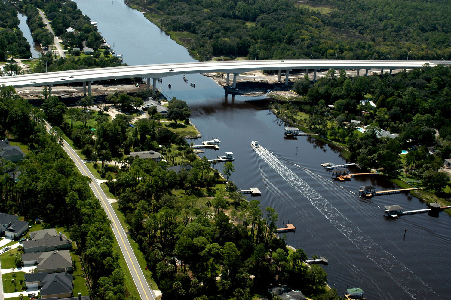 The Palm Valley Bridge over the Intracoastal Waterway in St. Johns County near Ponte Vedra Beach, Florida, USA. This drawbridge replaced an old fixed-span drawbridge in the same location in 2002 and the old bridge was demolished. County Road 210, Palm Valley Road, crosses over this bridge. View is to the south Coordinates: 30°7′58.3″N 81°23′8.02″W / 30.132861°N 81.3855611°W